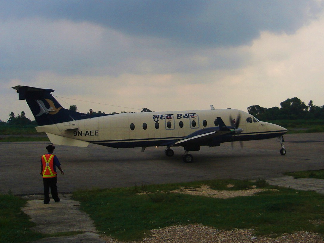 Buddha Air Beechcraft 1900 D at Simara Airport (SIF)